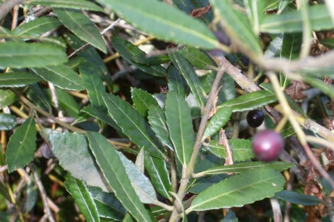 Elaeocarpus holopetalus, Leura